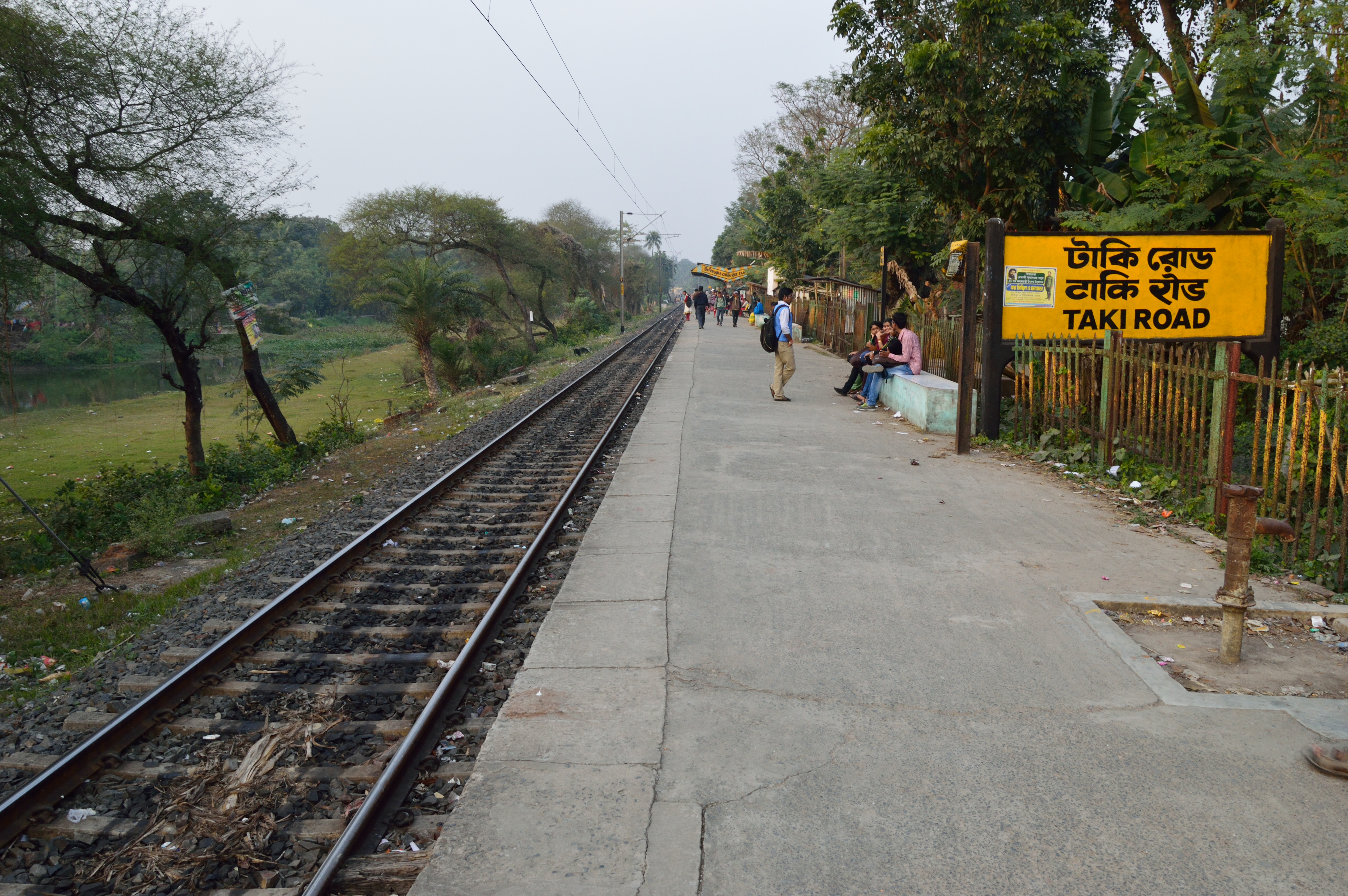 Photographed at Taki, North 24 Parganas.